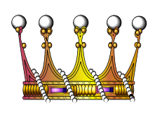 Belgian Knight Crown